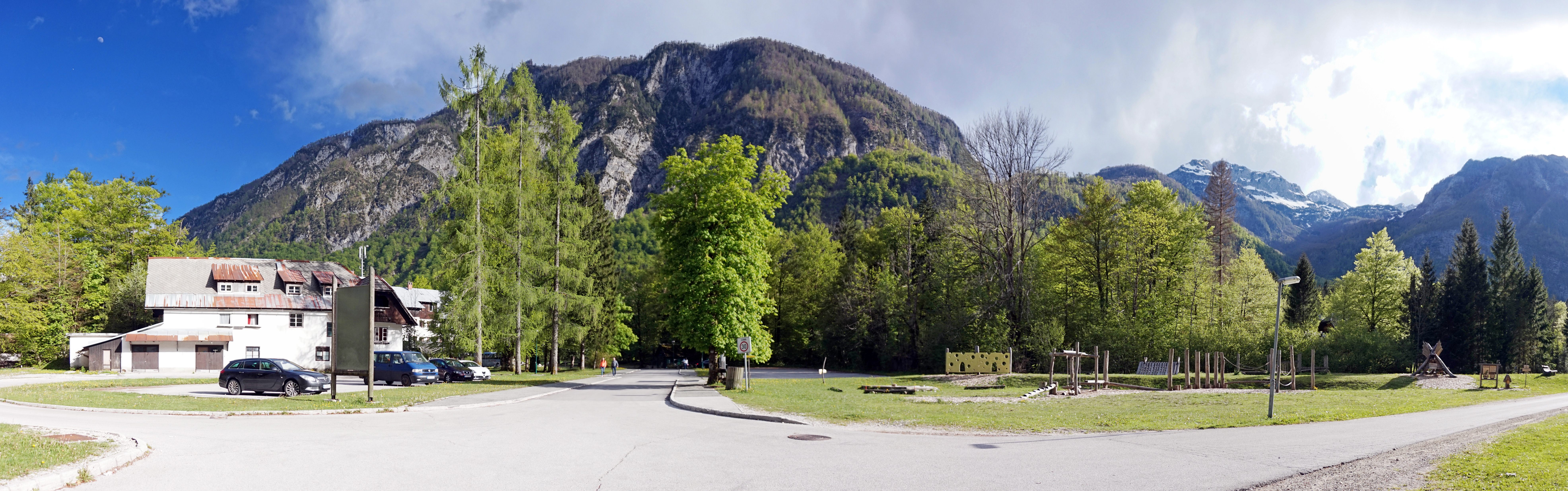 Mountain view in Ukanc, Slovenia. This photograph was taken with a Sony Alpha a5000.